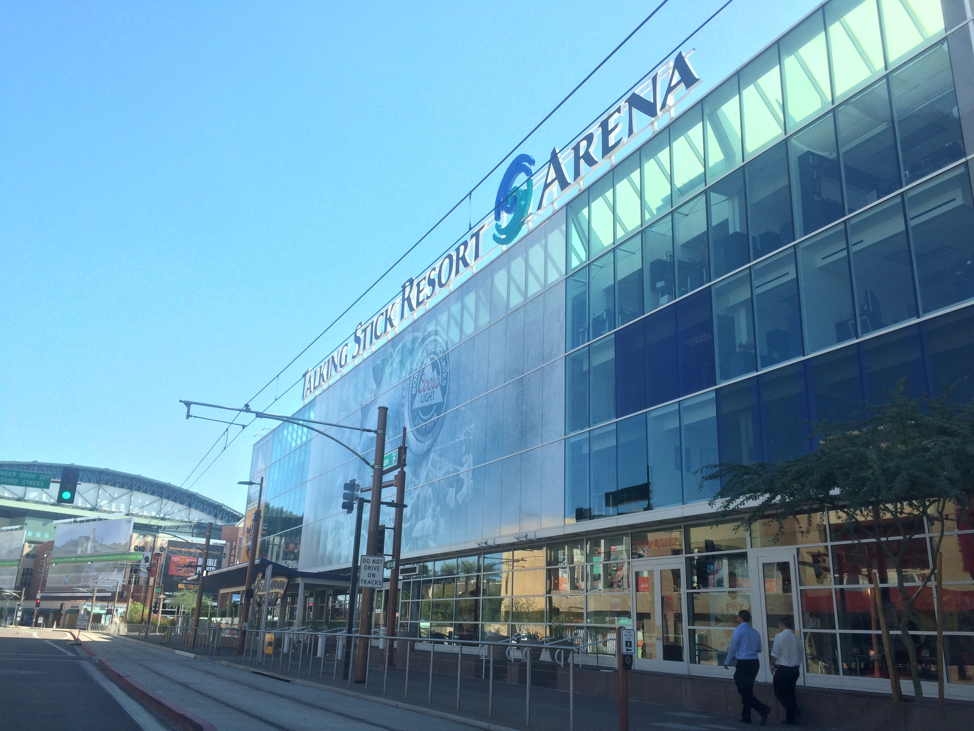 North Entrance into Talking Stick Resort Arena along Jefferson St. in 2015